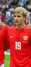 Roman Pavlyuchenko before home match against FYR Macedonia